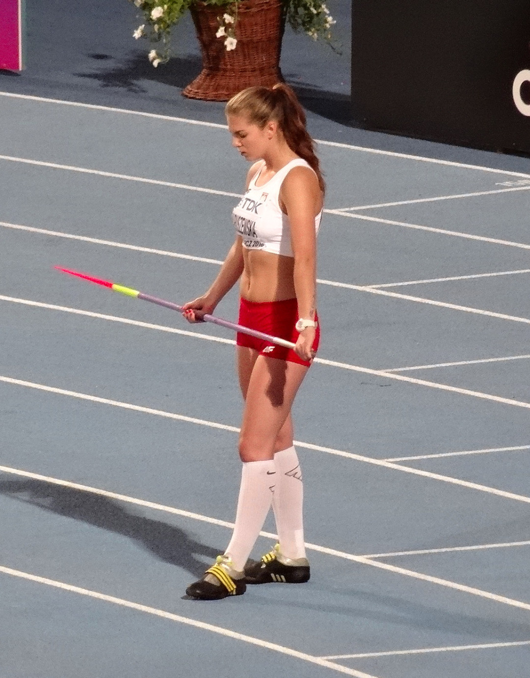 2016 IAAF World U20 Championships in Bydgoszcz, javelin throw women final